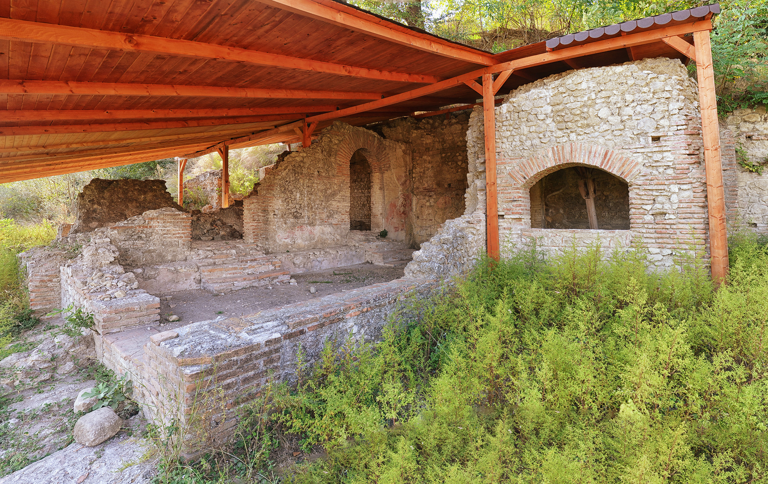 The Roman Thermae of Ad Quintum, today Bradashesh, Albania